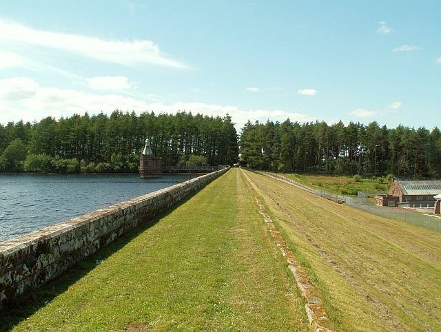 The dam, Castle Carrock Reservoir. This photo was taken on a guided tour to celebrate the reservoir's 100th year. The crenellated turret in the water is 1433206 ; buildings to the right of the dam are part of the Castle Carrock Water Treatment Works. We think the photo is straight - the trees in the distance are leaning to the right.